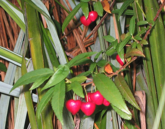 Aristotelia peduncularis - Heart Berry.